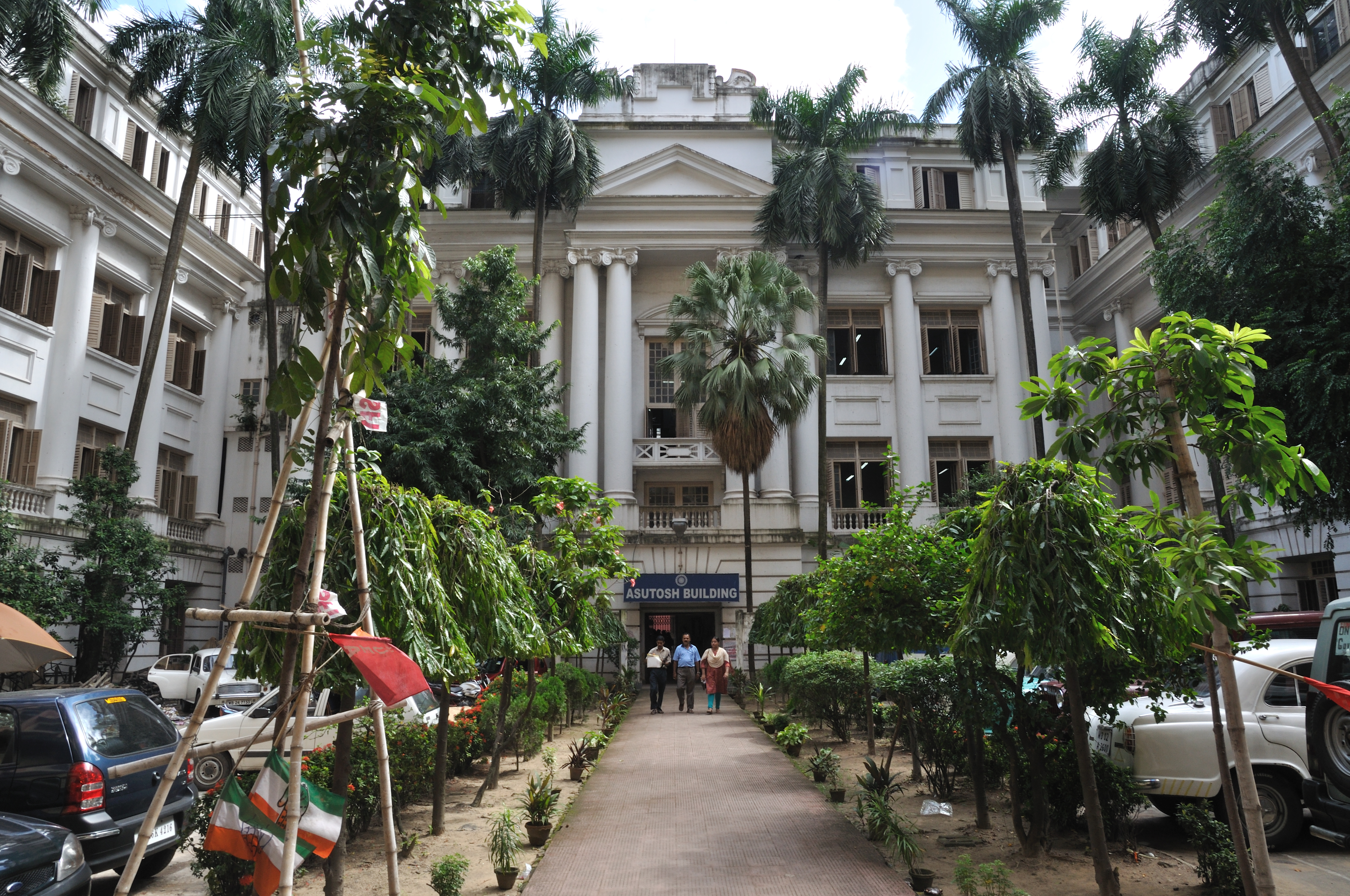 The University of Calcutta (also known as Calcutta University) is a public university located in the city of Kolkata (previously Calcutta), India.